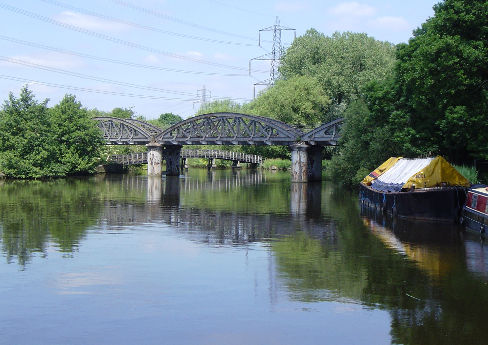 Kennington Railway Bridge and footbridge, Oxfordshire